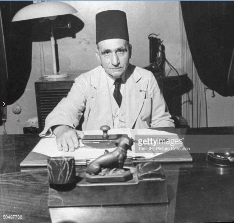 at the office